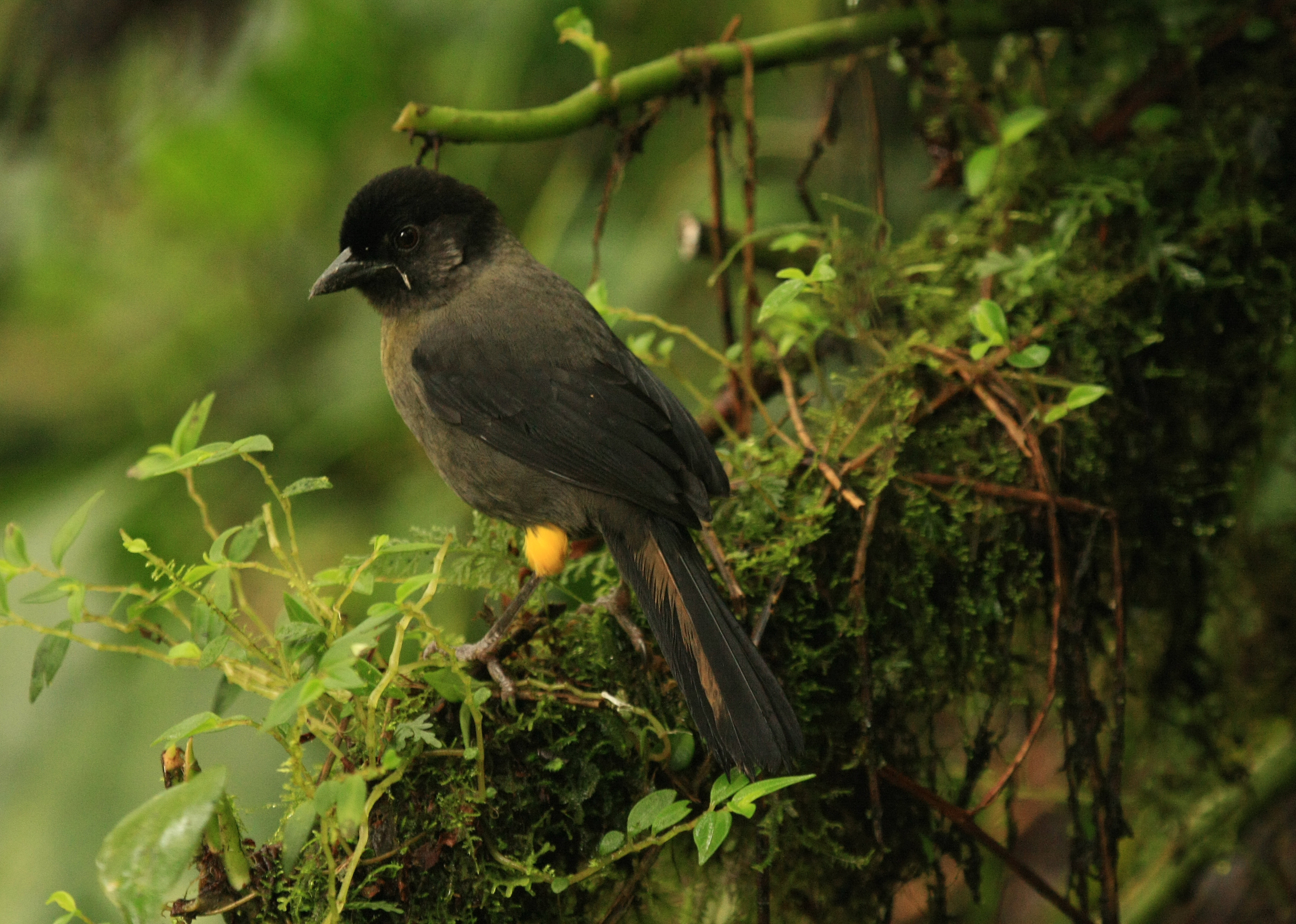 A Yellow-thighed Finch in Costa Rica.